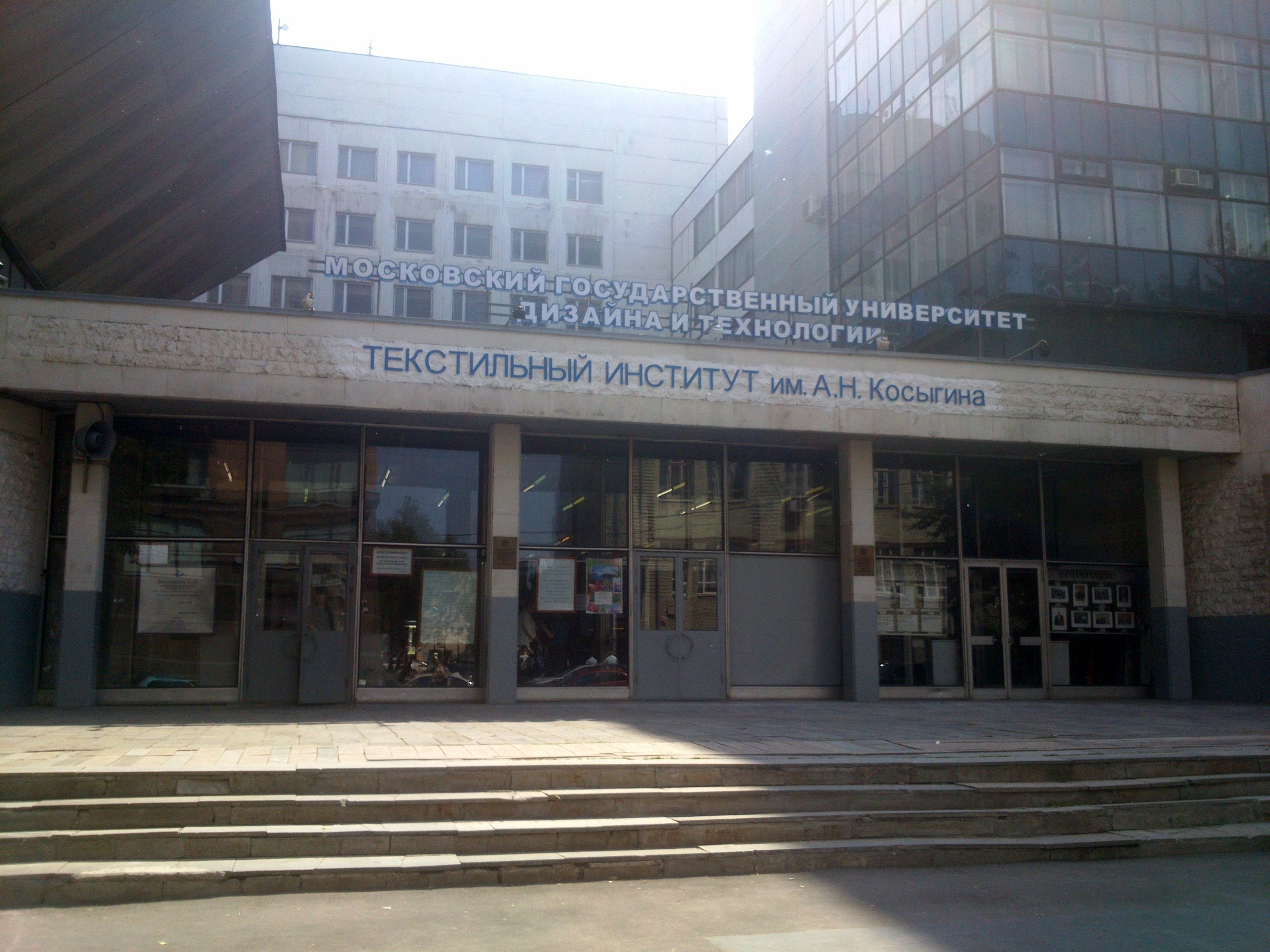 A. N. Kosygin Moscow State Textile University in June 2013